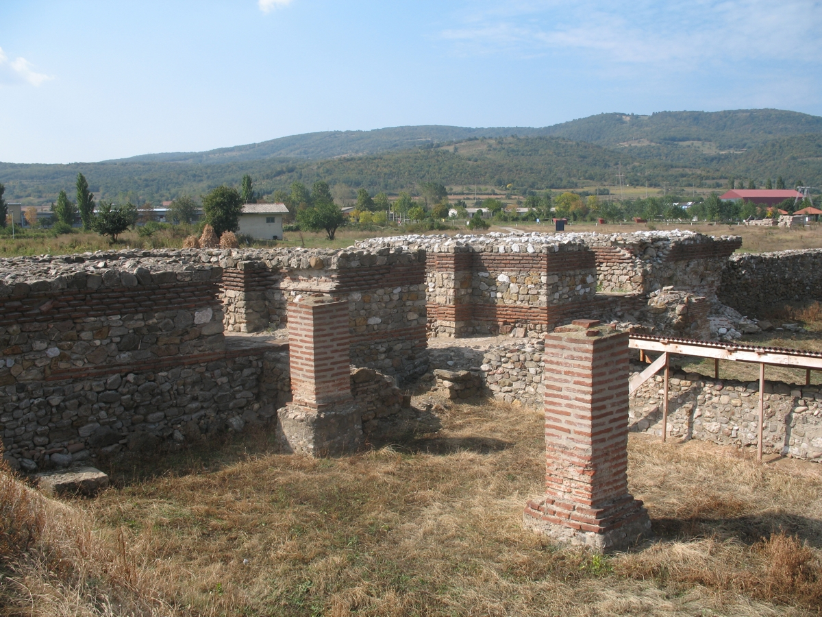 South gate of Roman castrum Diana on Danube in Karataš,next to HE Đerdap I,Serbia.